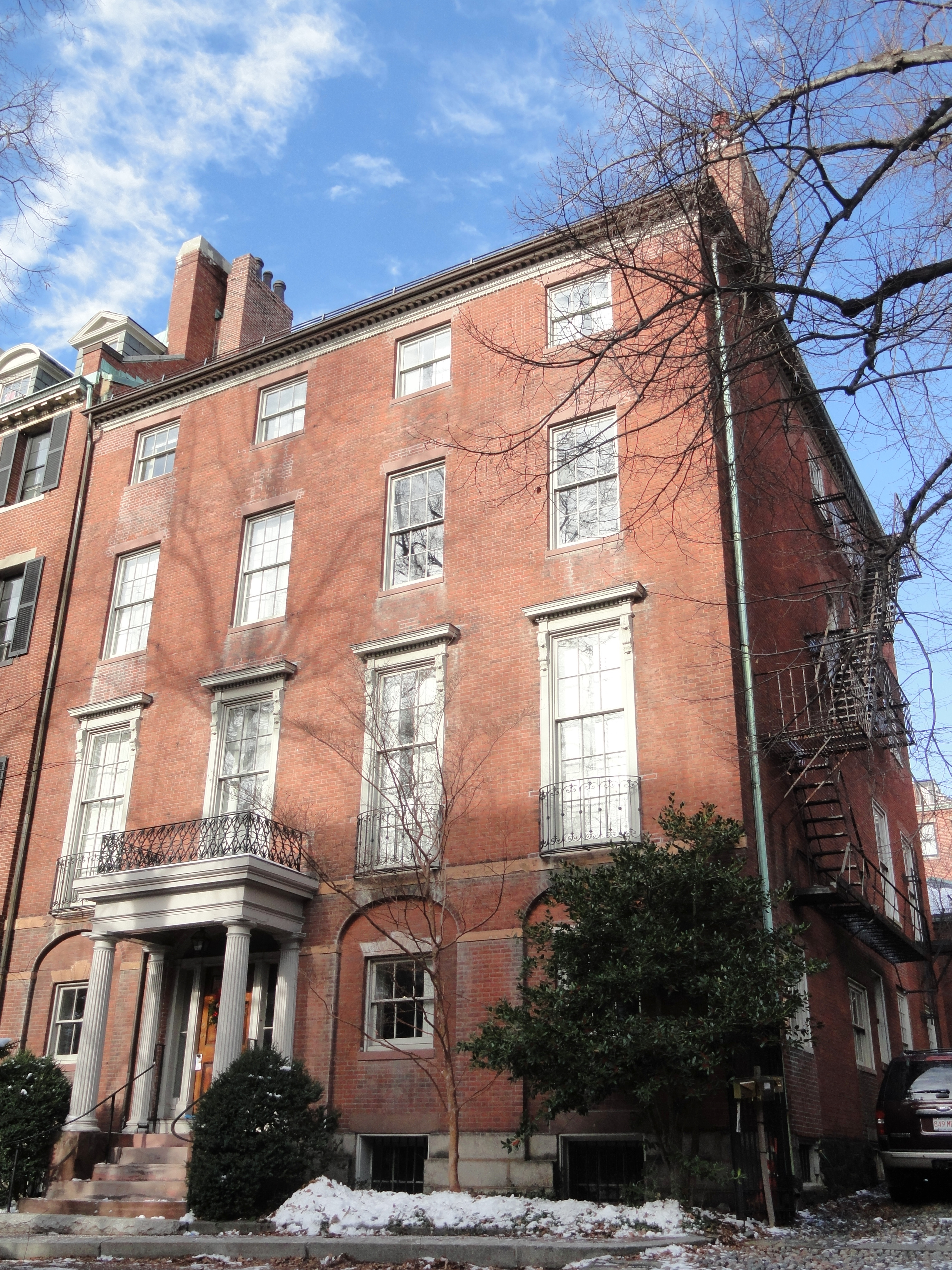 House at 87 Mt. Vernon Street, Boston, Massachusetts, USA. Built in 1805 for Stephen Higginson, Jr. Architect: Charles Bulfinch.